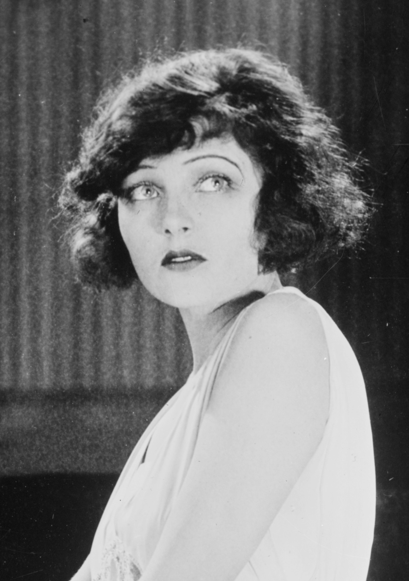 Actor Corinne Griffith